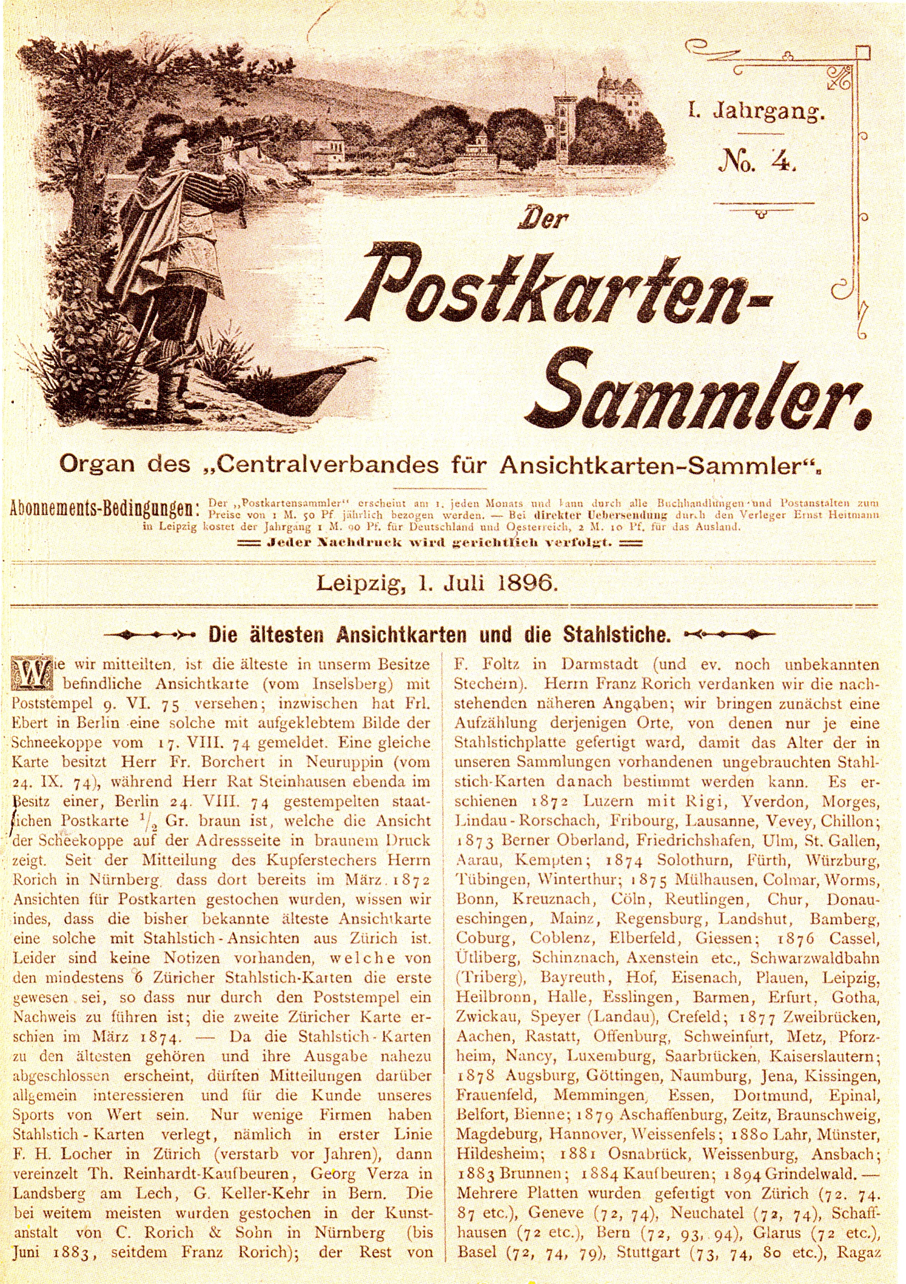 Front page of an old German magazin for postcard collectors